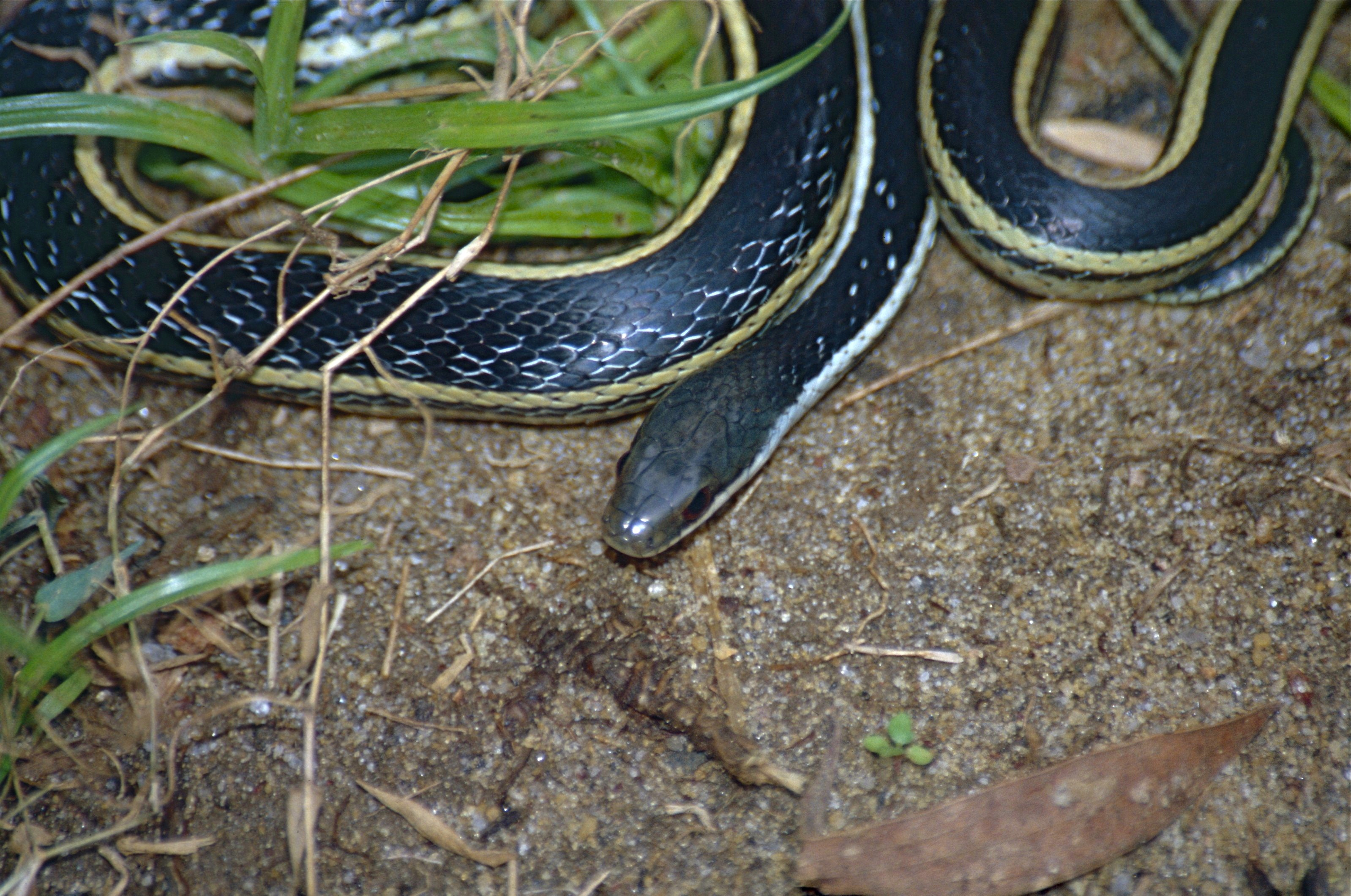 Nahampoana Reserve, Tolagnaro, MADAGASCAR Scanned Slide from 1998